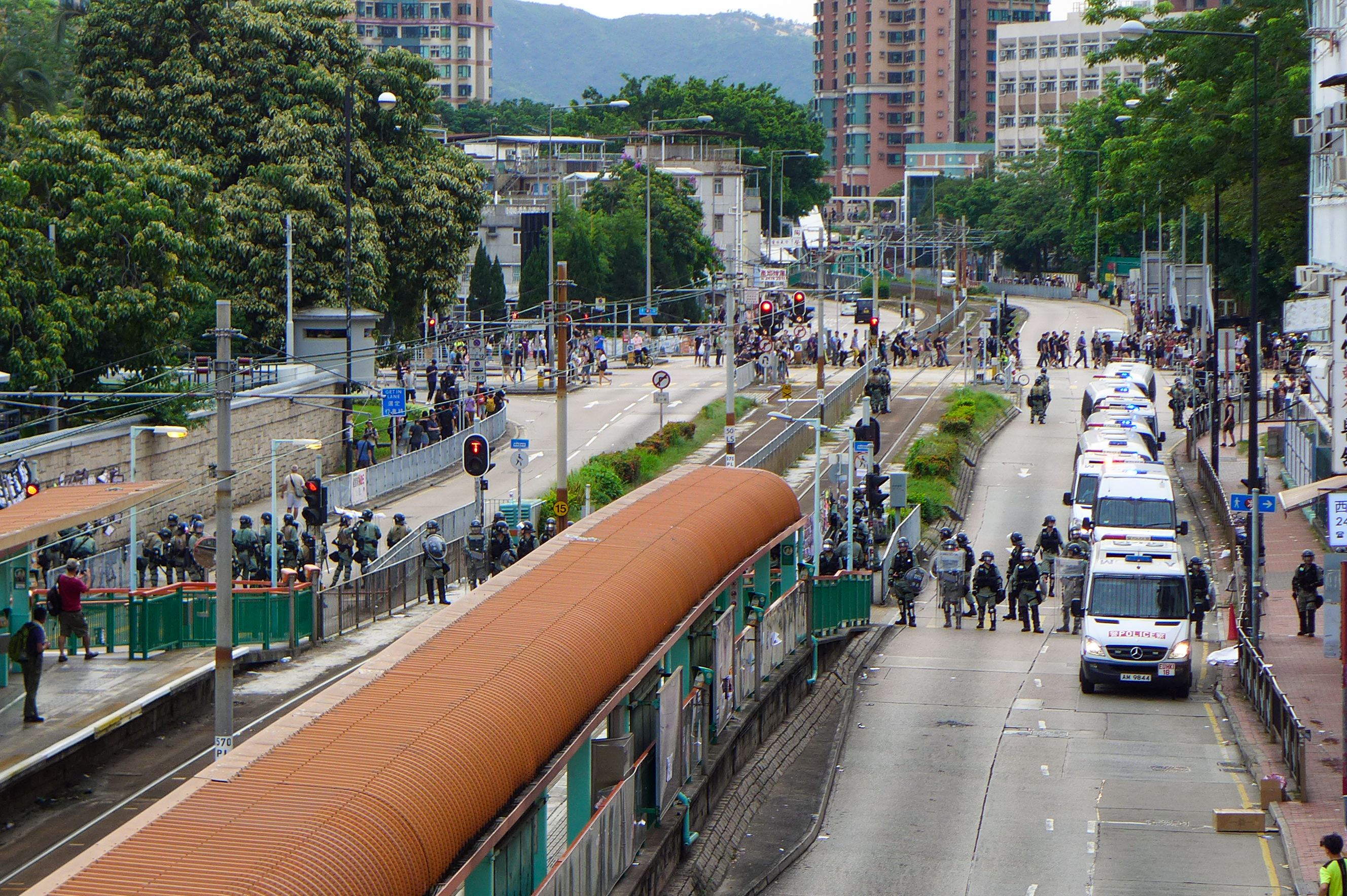 Riot Police standby Castle Peak Road